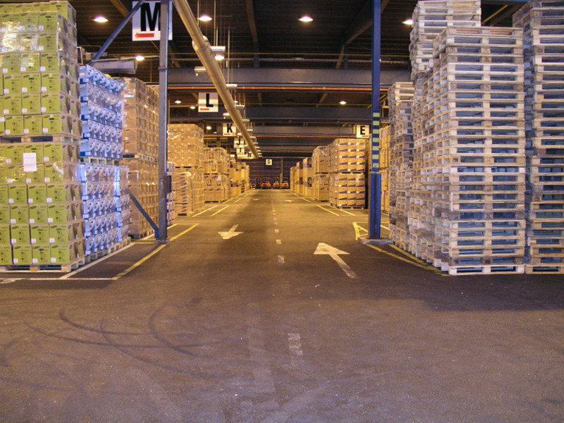 Warehouse, Green Logistics Co., Kotka, Finland